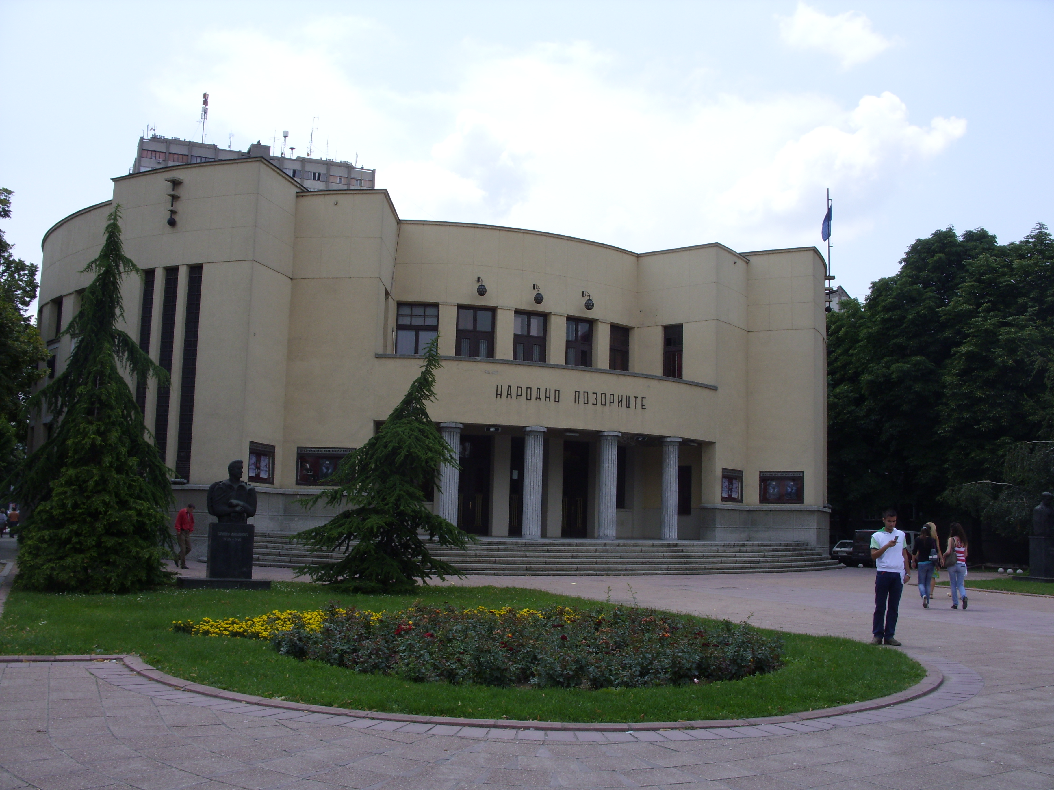 city of Nis, Serbia